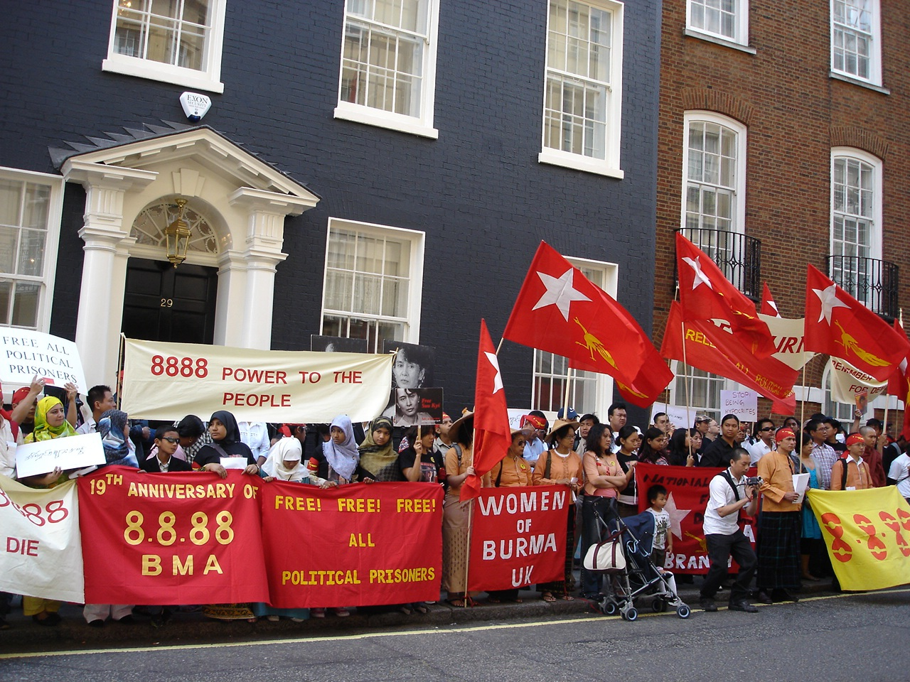 8888s Anniversary